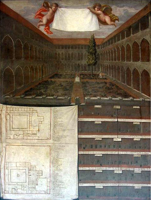 Painting with the Sant Antoni i Santa Clara monastery, at Barcelona